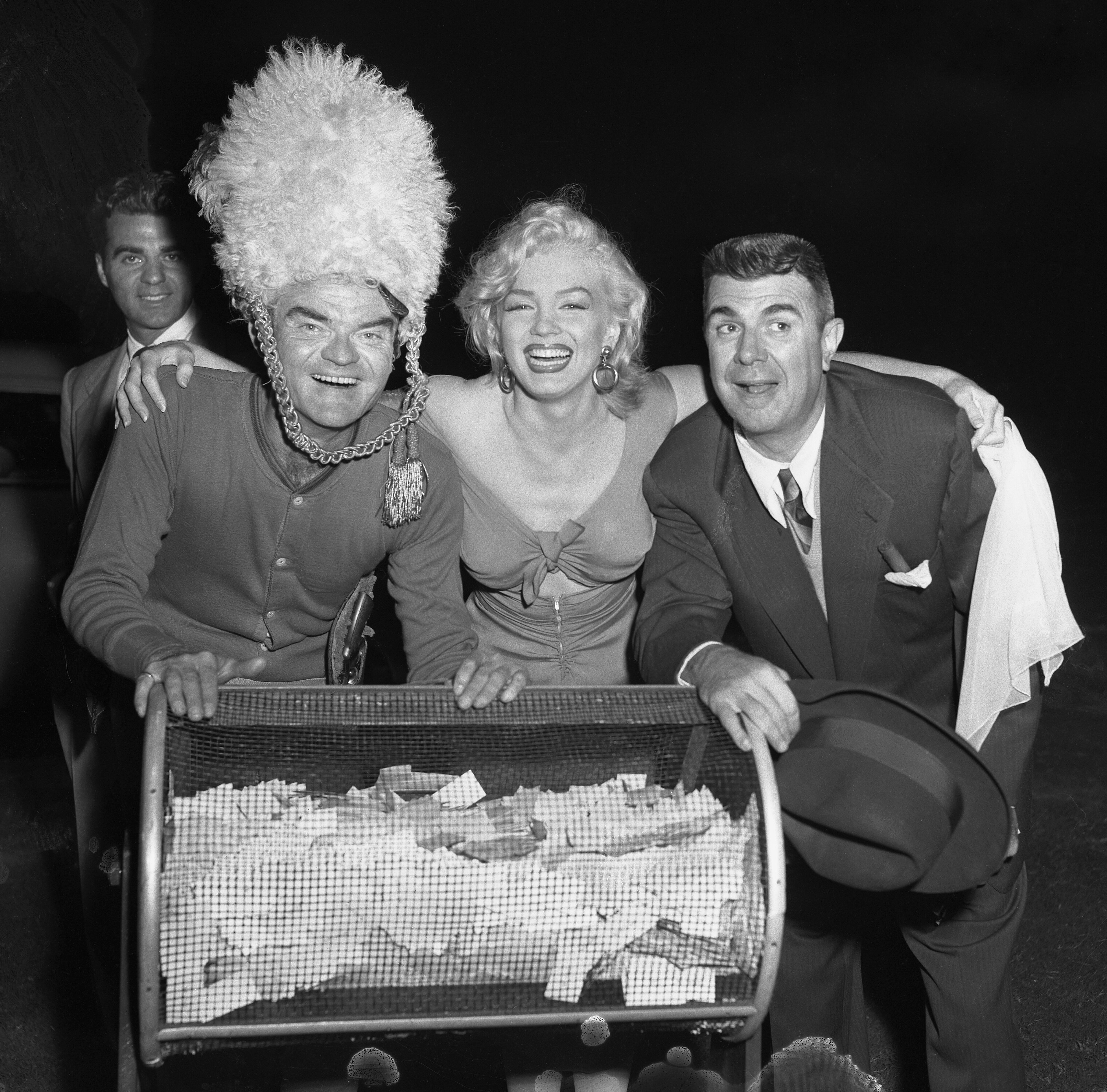 Title: Spike Jones, Marilyn Monroe and Ken Murray posing for camera at eighth annual Los Angeles Times charity football game, 1952 Published caption: MARILYN AND FRIENDS-- Spike Jones, Marilyn Monroe and Ken Murray, who supplied laughs, etc., during the between-halves entertainment program at eighth annual Times charity game at the Coliseum. Rams won, 45-23. Notes: The annual Times Charity Game raised funds for the Boys Club.